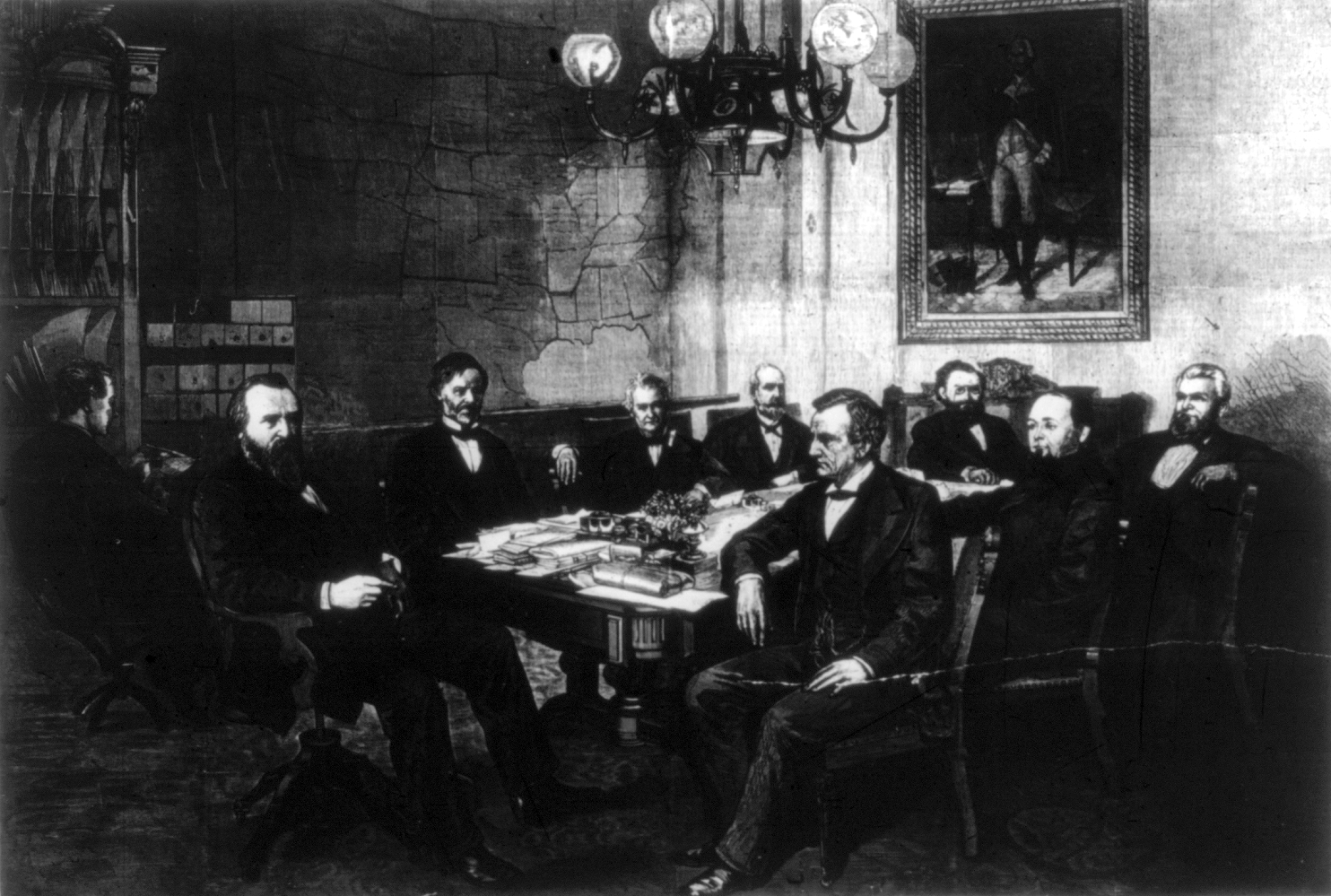 A cabinet meeting at the White House- Pres. Hayes, John Sherman [Secy. of the Treasury], R.W. Thompson [Secy. of the Navy], Charles Devens [Atty. Gen.], William Evarts [Secy. of State], Carl Schurz [Secy. of Interior], George McCrary [Secy. of War] and David Key [Postmaster Gen.]